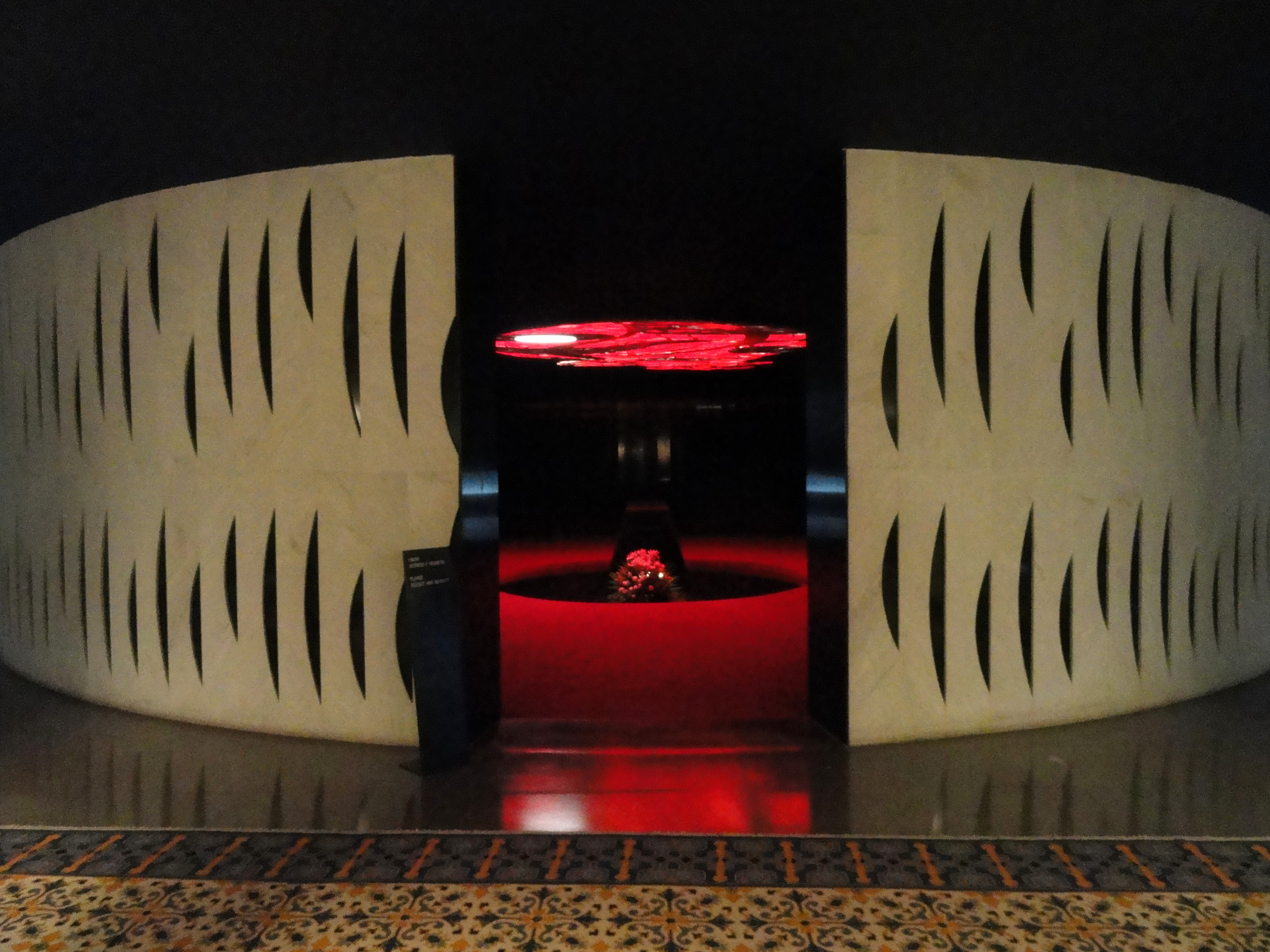 Interior view of the Memorial JK, Brasília, Brazil.